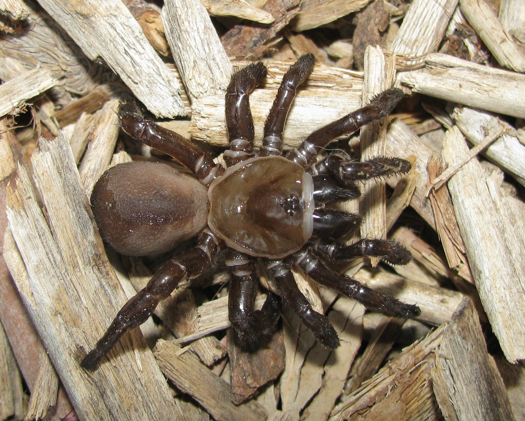 Bothriocyrtum californicum (California Trapdoor Spider) Dorsal View Comments on the ID: It is based on information from the Orange County Arthropods web site, The ID looks very good to me, but I'm not an expert. The Image was taken in Fullerton, CA, USA